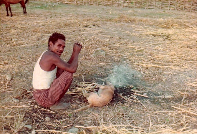 Indonesian is barbecuing a dog, he had just killed. Cowa, Portuguese Timor